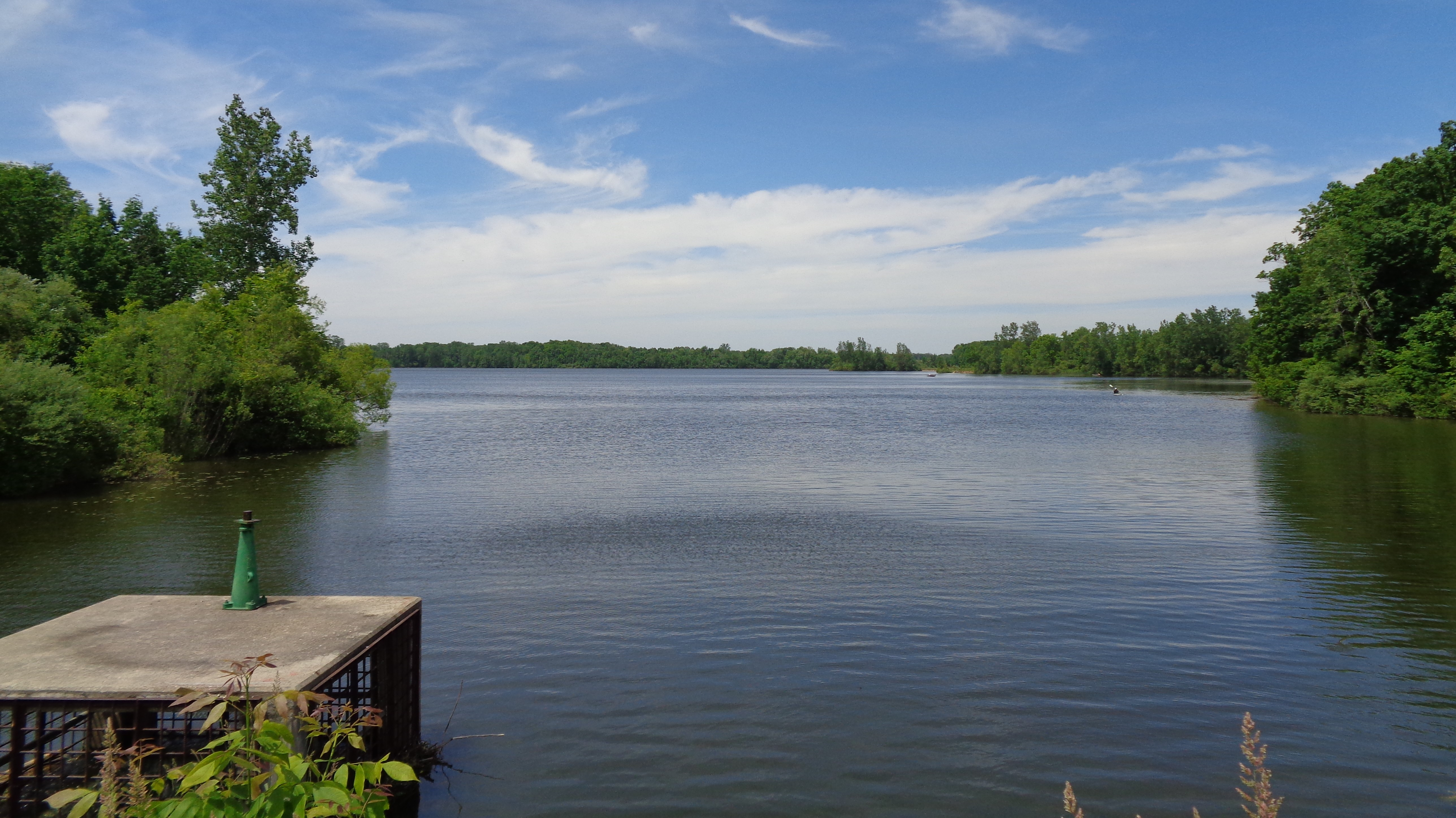 Lake Hudson State Recreation Area (Bear Creek Dam)